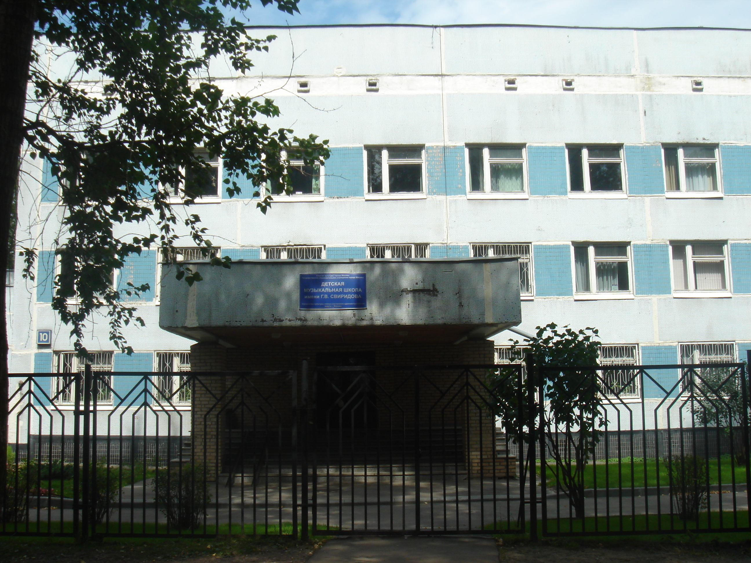 Moscow. Losinoostrovsky district. Musical school.